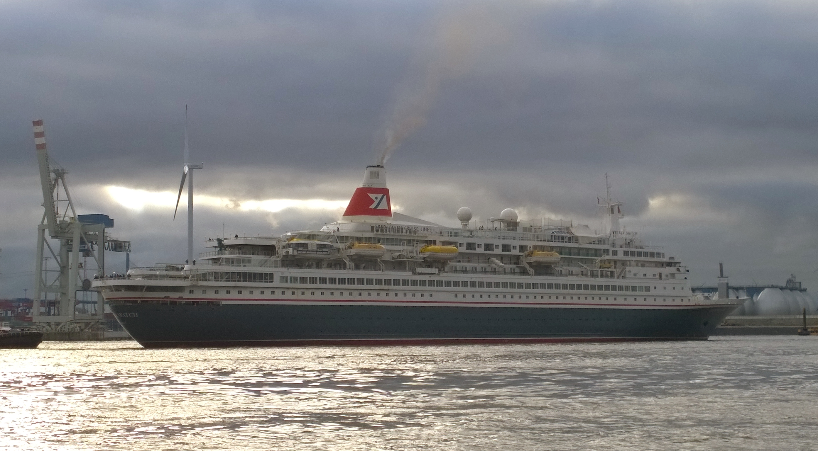 The cruise ship Black Watch on berth 13/14 of the Blohm & Voss - shipyard in Hamburg